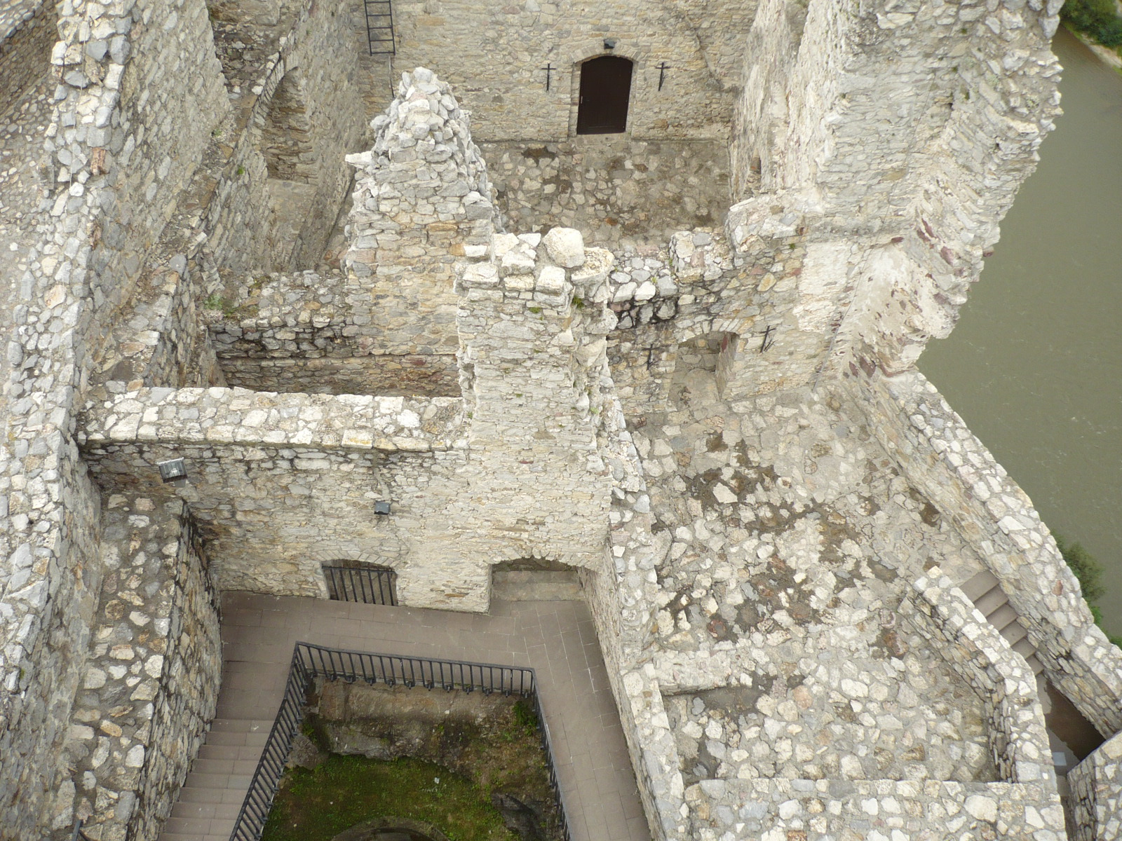 Strecno Castle, Slovakia - look from the tower to castle